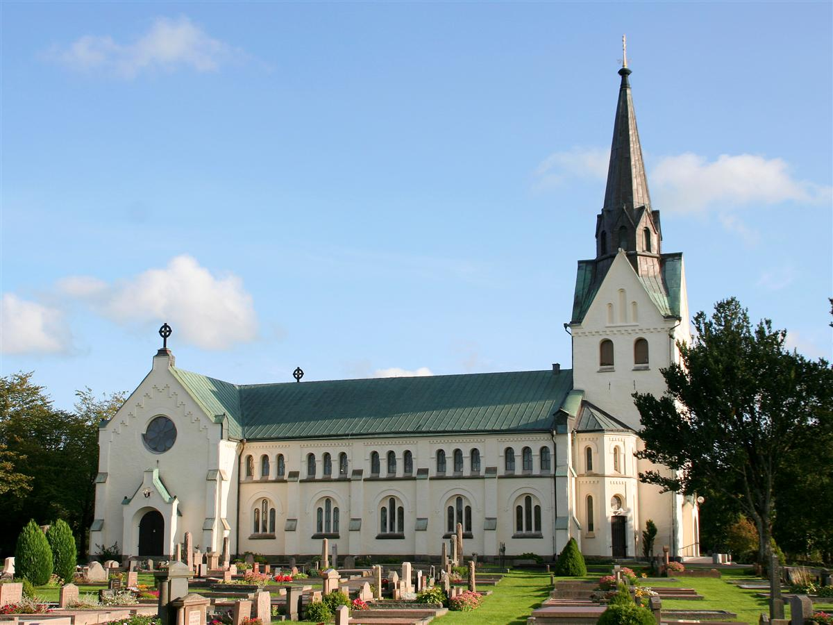 Lindome Church